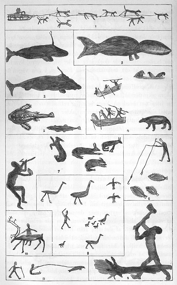 Drawings made by Chukchi